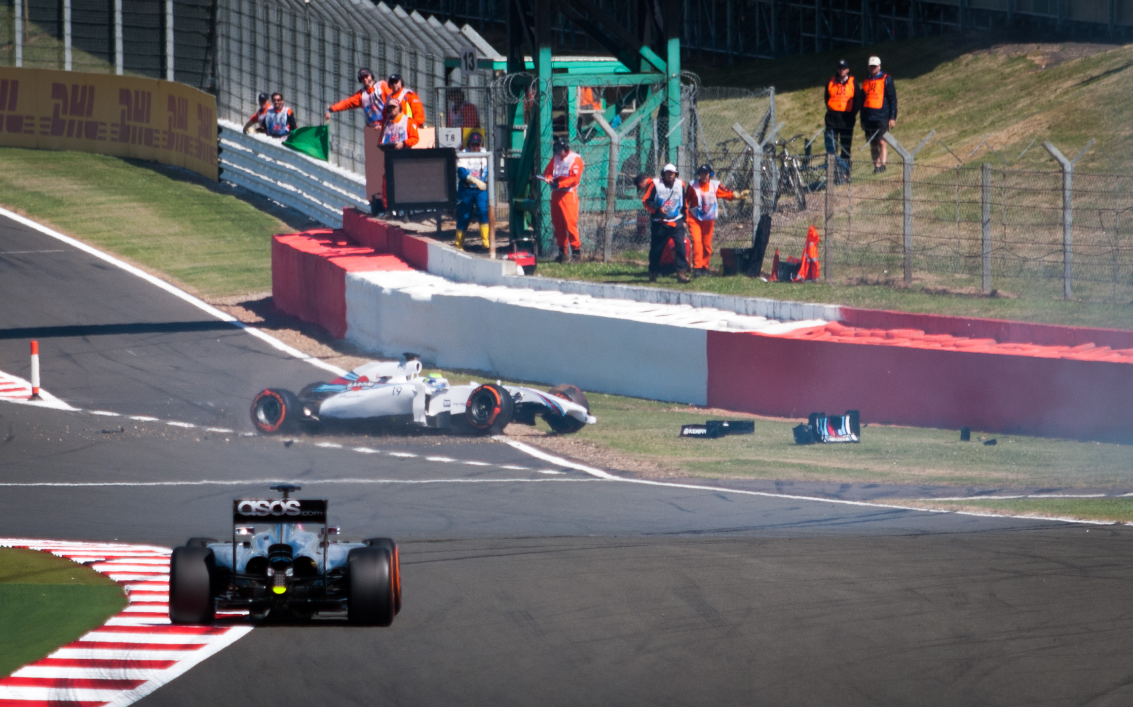 Felipe Massa crashes in Free Practice One at Stowe corner. 2014 British Grand Prix at Silverstone Circuit.